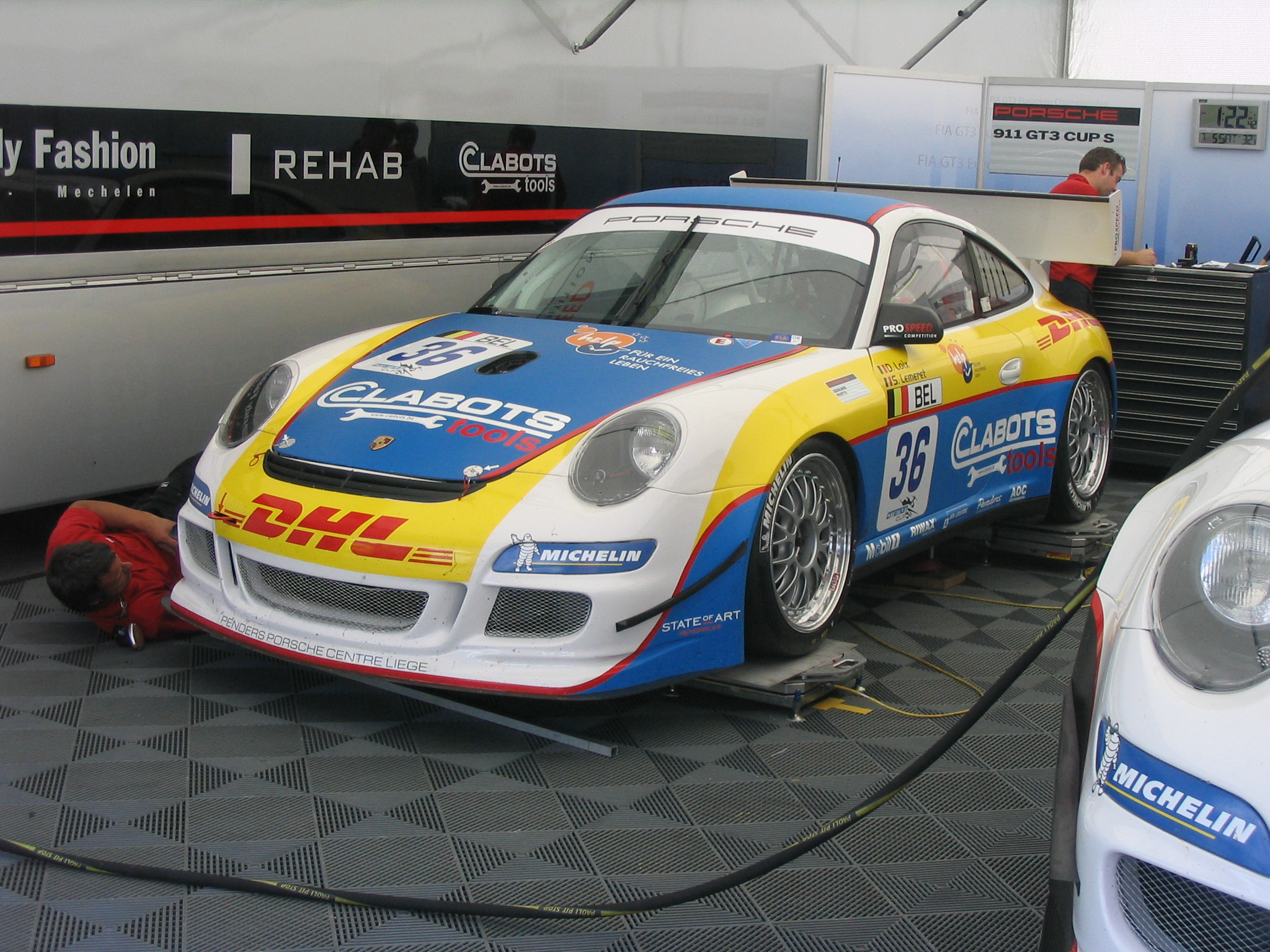 Porsche 997 GT3 Cup S driven by David Loix and Stephane Lemeret at the FIA GT3 European Championship 2008 in Oschersleben. The car stand in a tent in the paddock together with the other Prospeed Competition sister car.